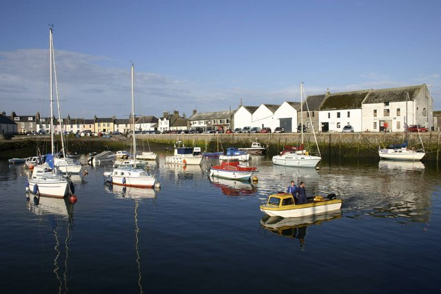 Isle of Whithorn Harbour Taken at 7pm on a fine August evening.